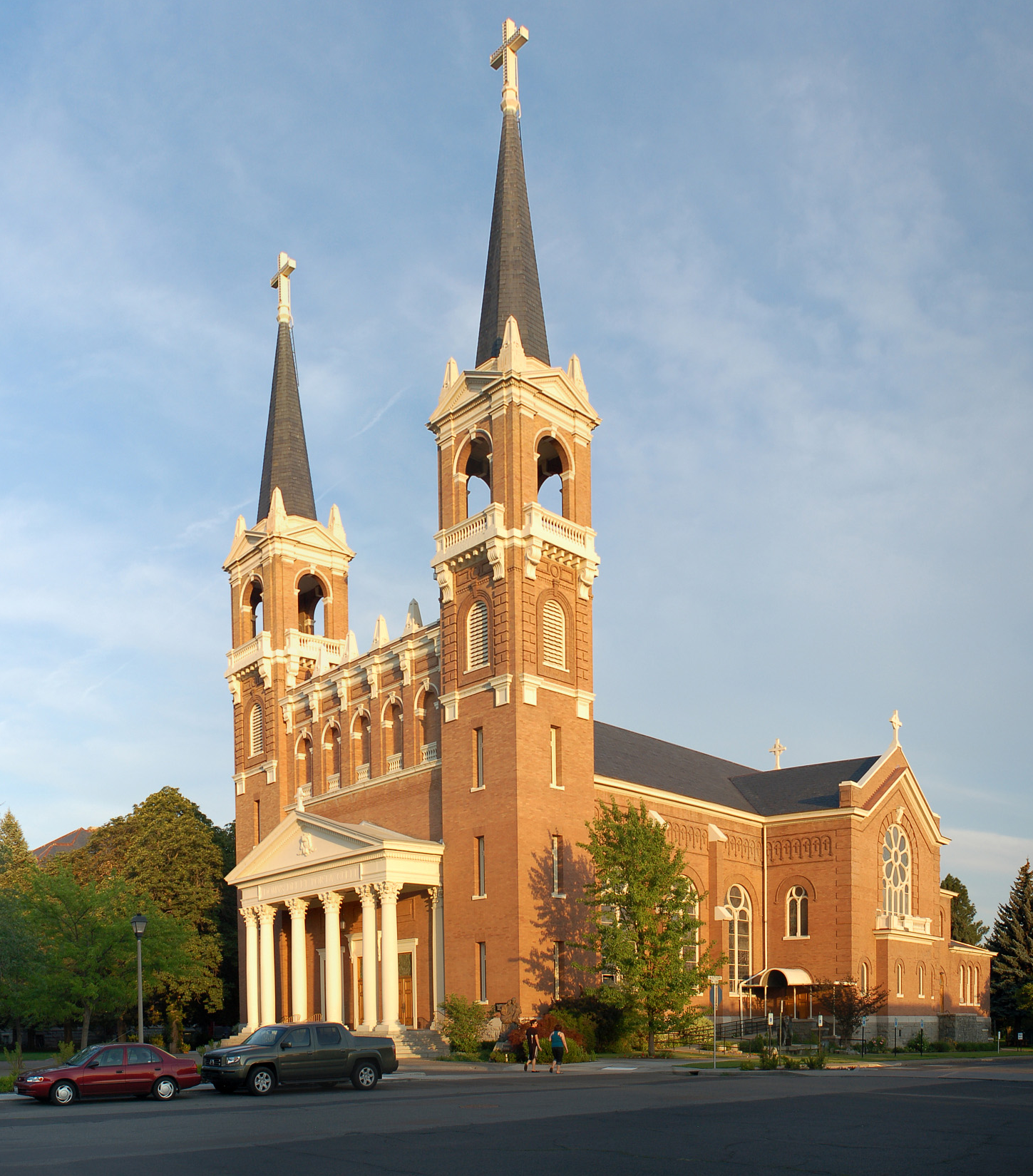 Image of St. Aloysius Church on the campus of Gonzaga University in Spokane, Washington. Cropped